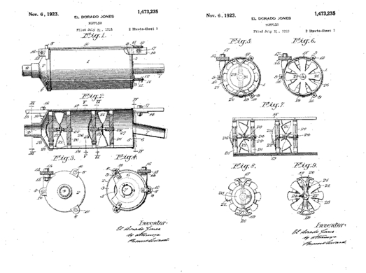 Plane muffler created by Eldorado Jones